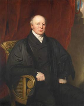 Portrait of Nicholas Robinson (1769-1854), Lord Mayor of Liverpool 1828-1829.